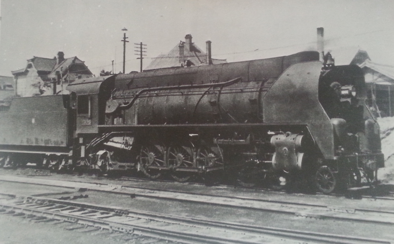 South Manchuria Railway locomotive Matei-1805, prior to 1938.